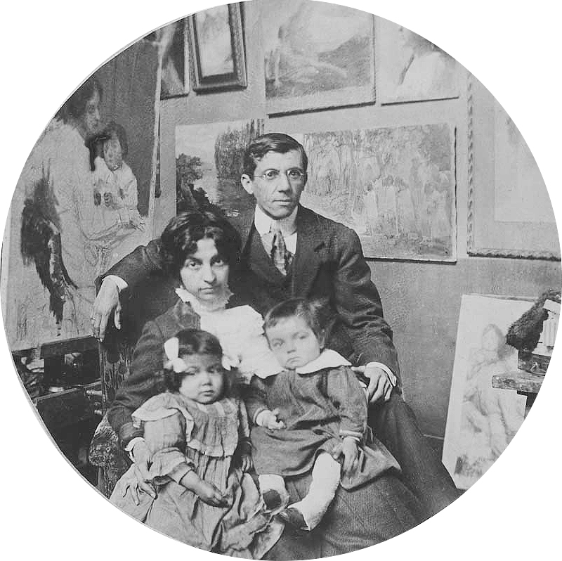 Lucilio Albuquerque e Georgina de Albuquerque